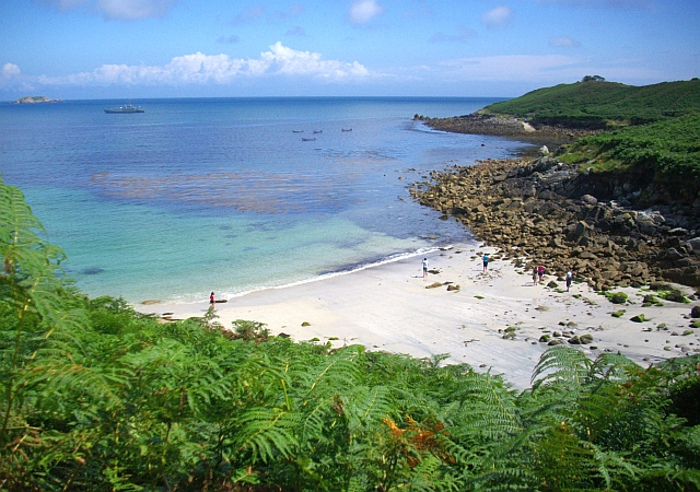 Watermill Cove, near to Maypole, Isles of Scilly, Great Britain. A beautiful sandy bay with clear blue water. Beyond is Tregear's Porth and the headland of Toll's Hill. On the horizon on the far left is one of the easternmost of the Eastern Isles, Menawethan. The H.M. Coastguard vessel "Searcher" is anchored in Crow Sound with the crew using the inflatable craft to survey and explore the islands for possible terrorist/drug importing locations (well that's what I gathered from the local radio.)